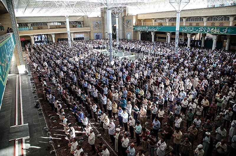 Iranians holding Eid al-Fitr prayer in Fatima Masuma Shrine, Qom, Iran